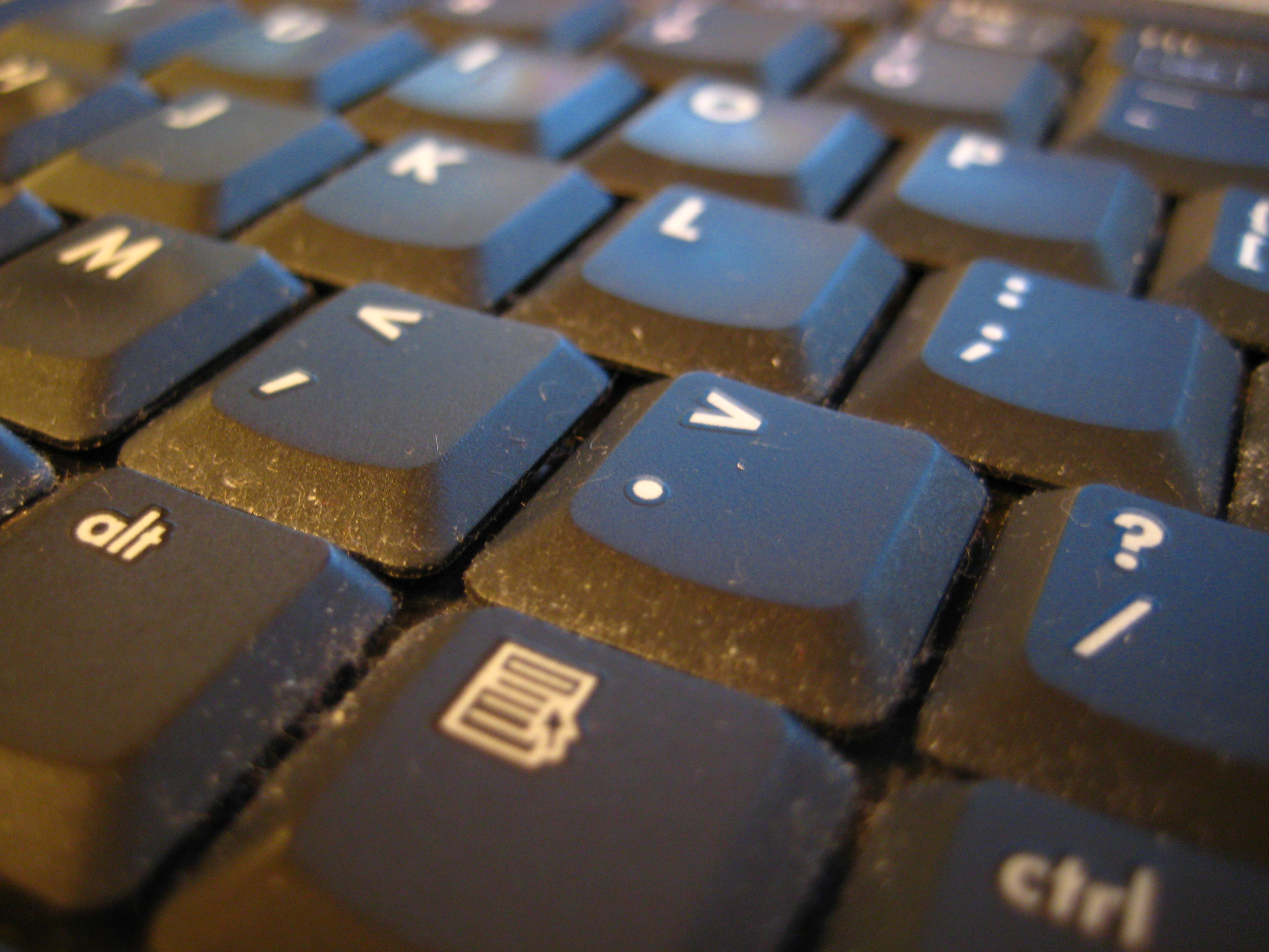 A computer keyboard placing emphasis on the angle brackets